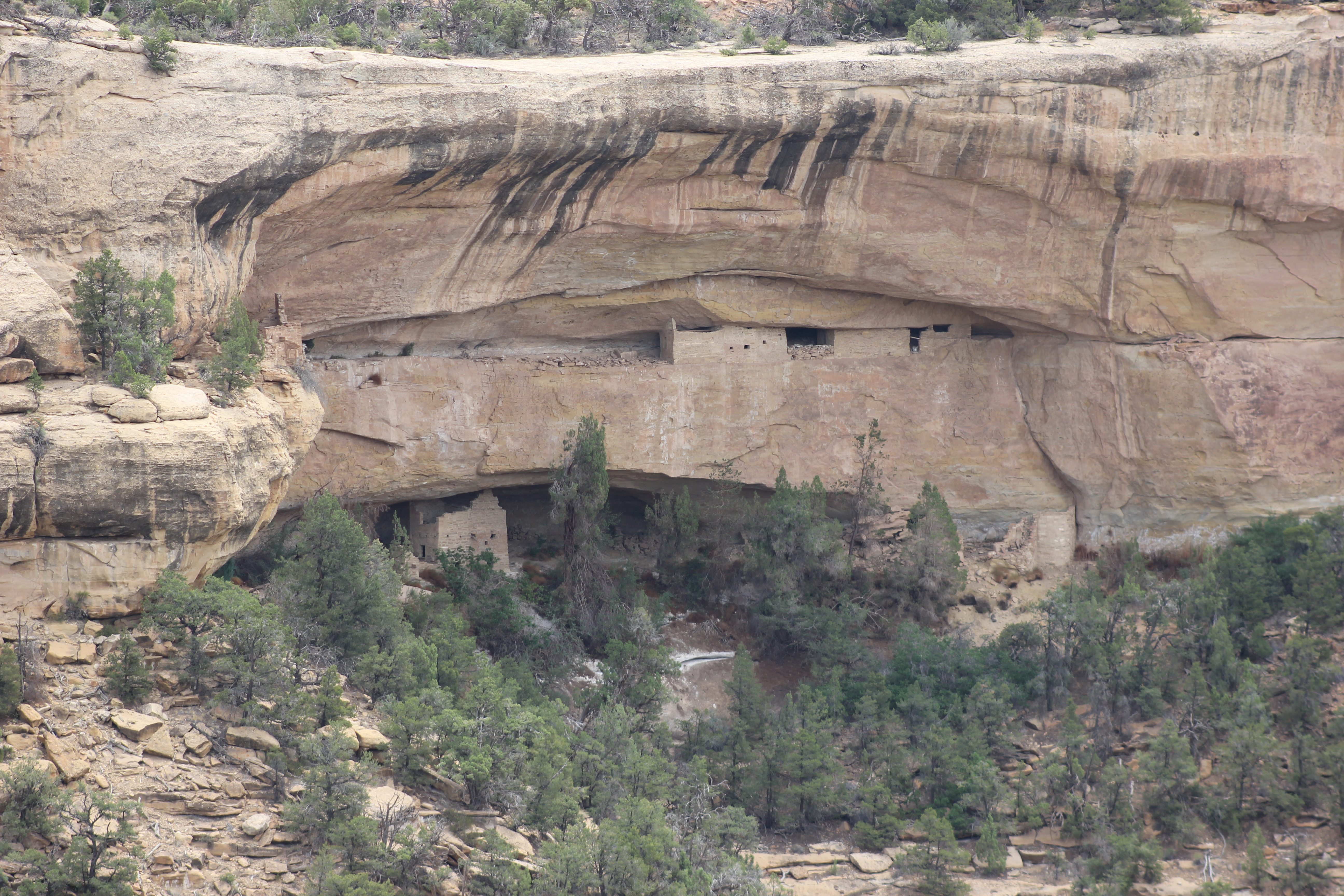 Sunset House